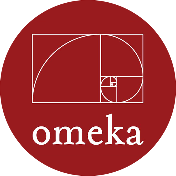 Logo du logiciel open source Omeka